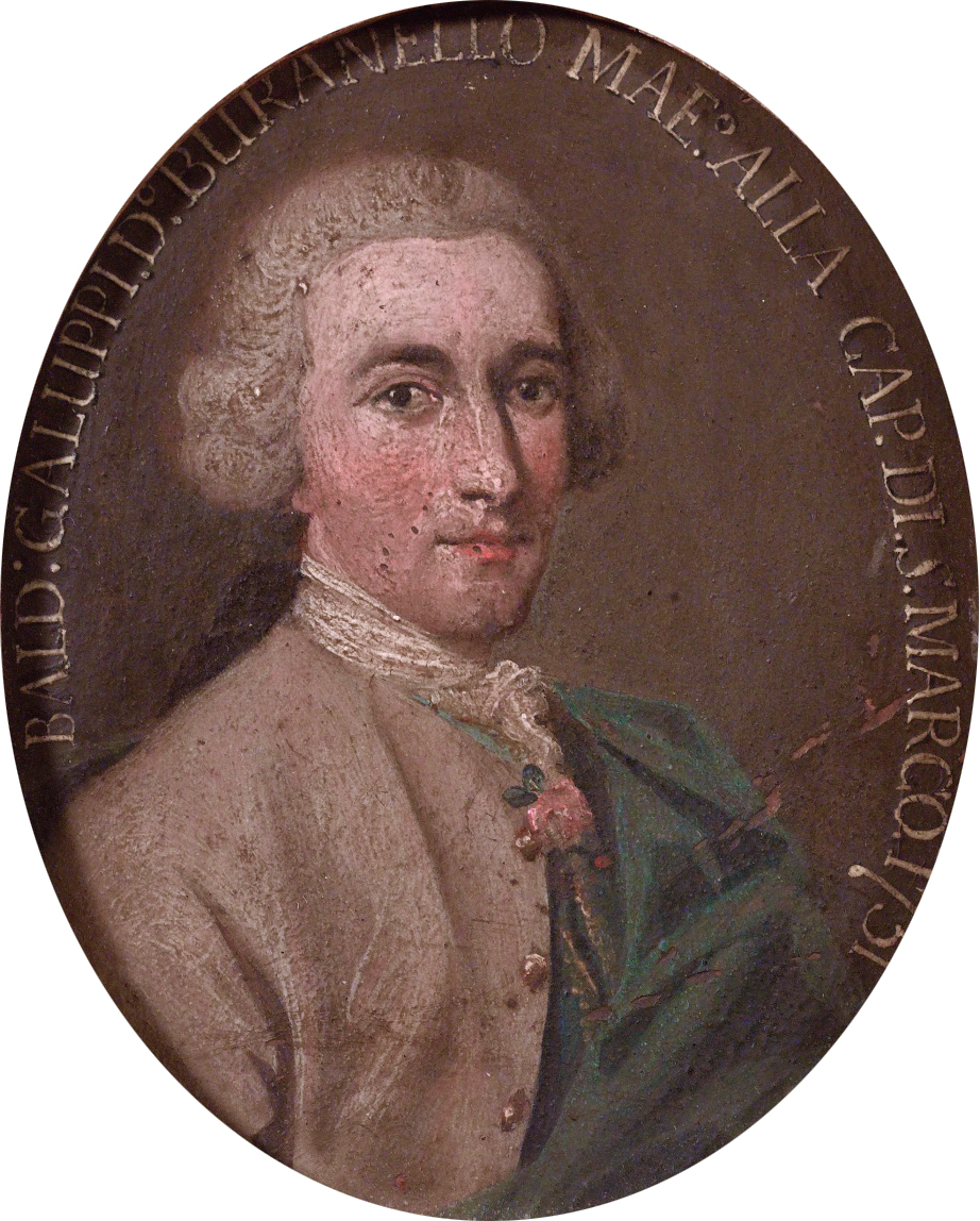 Baldassare Galuppi a.k.a Il Buranello (1706-1785) oil on copper 11 x 9 cm inscribed: Bald : Galuppi.D. Buranello Mae. Alla. Cap. Di. S. Marco. 1751